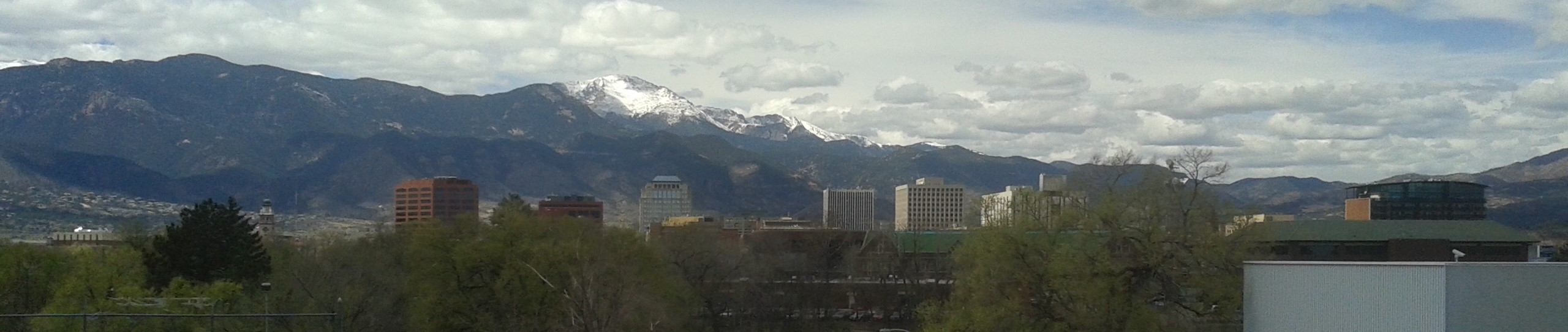 Downtown Colorado Springs from the east